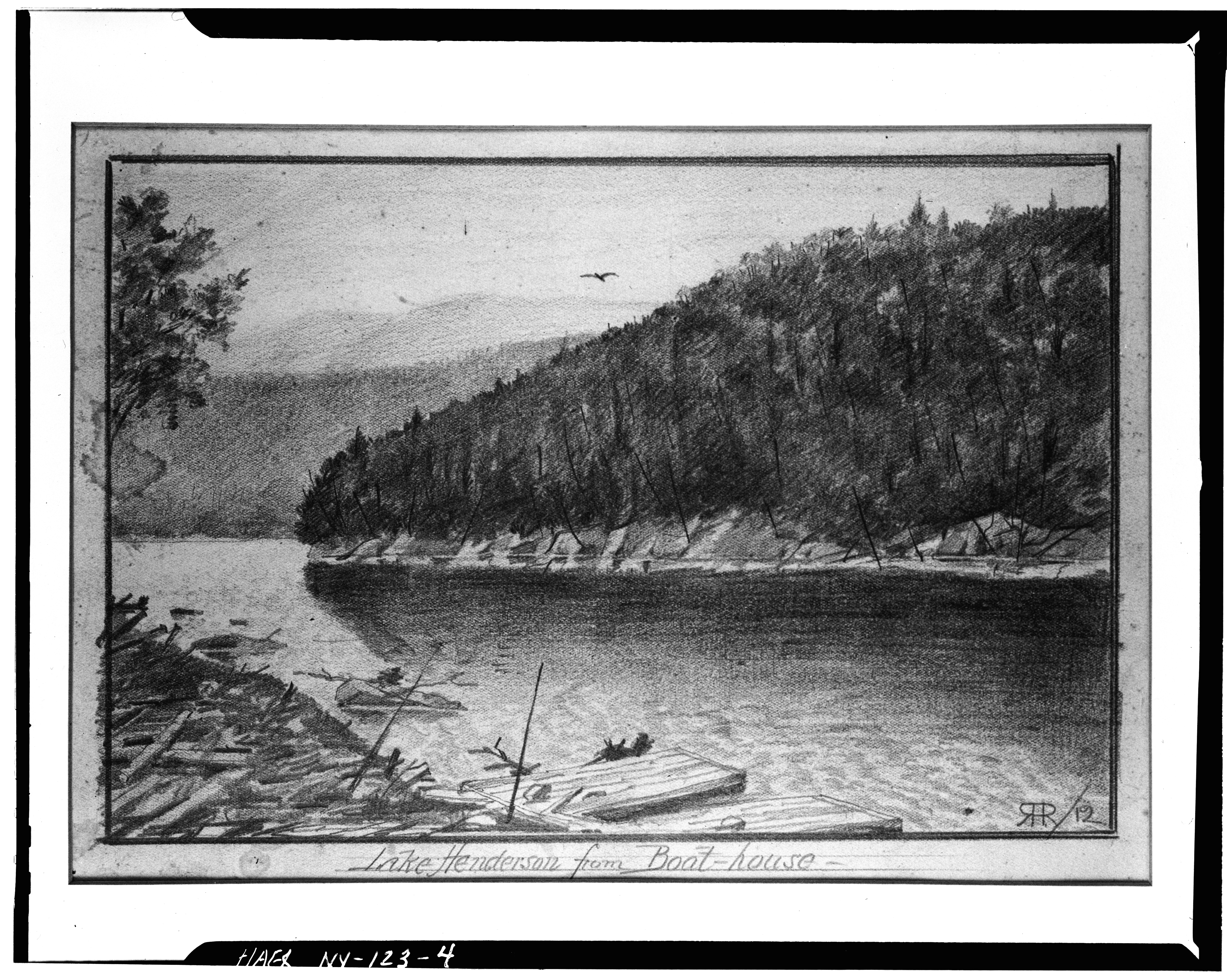 4. Photocopied June 1978 R.H. ROBERTSON, PENCIL AND CHARCOAL SKETCH, LAKE HENDERSON, FROM TAHAWUS CLUB BOAT DOCK. CA. 1914. SOURCE: ARTHUR CROCKER, PRESIDENT OF THE TAHAWUS CLUB. - Adirondack Iron & Steel Company, New Furnace, Hudson River, Tahawus, Essex County, NY